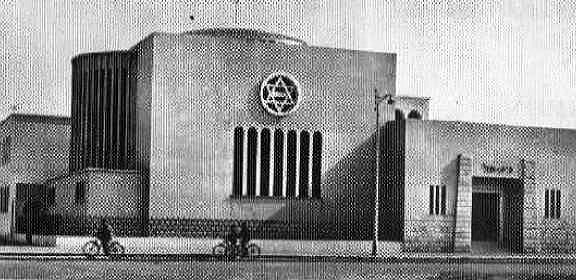 Synagogue in Sfax, Tunisia